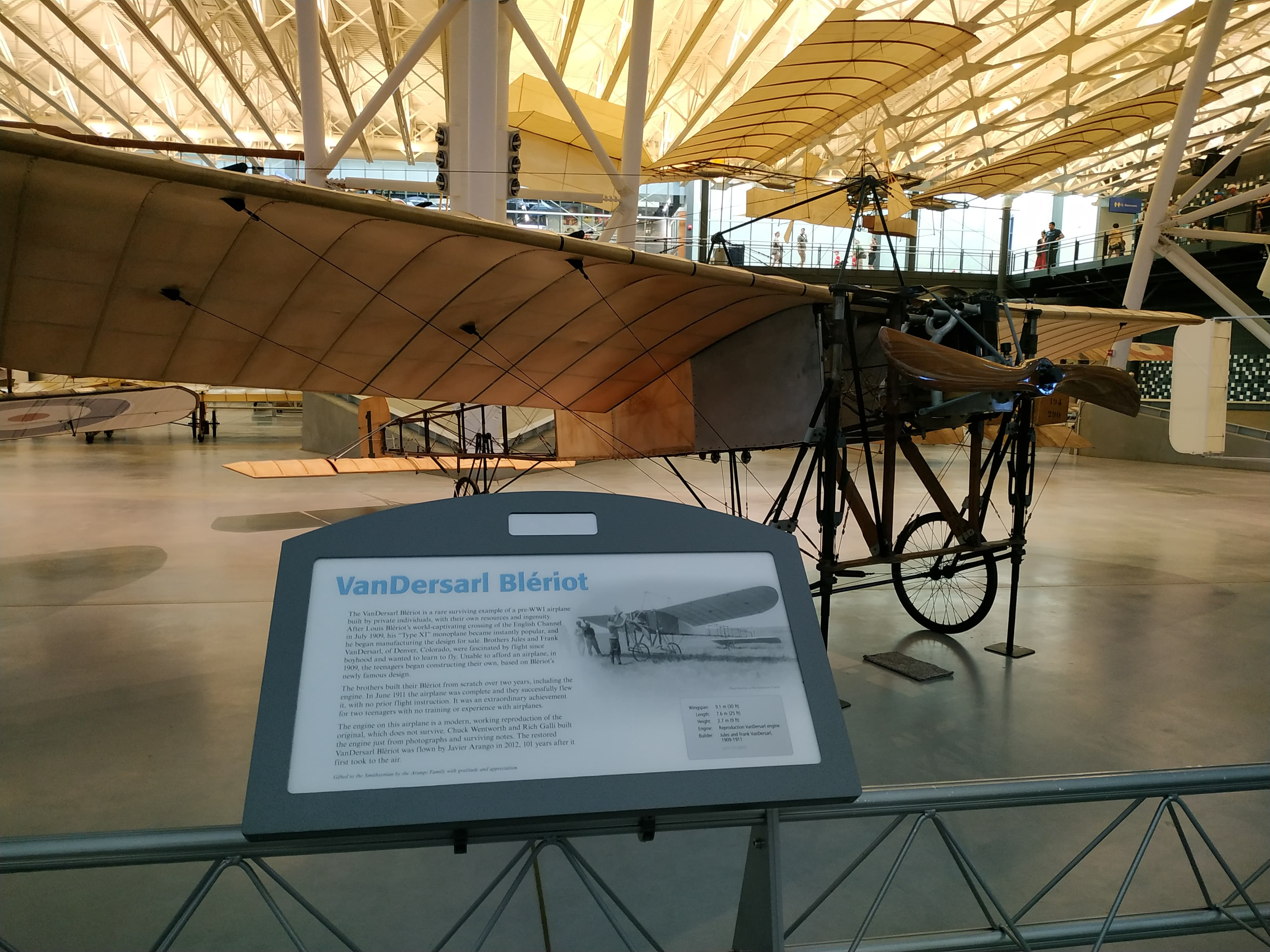 The VanDersarl Bleriot on display in the Smithsonian Air and Space Museum in Chantilly, VA.